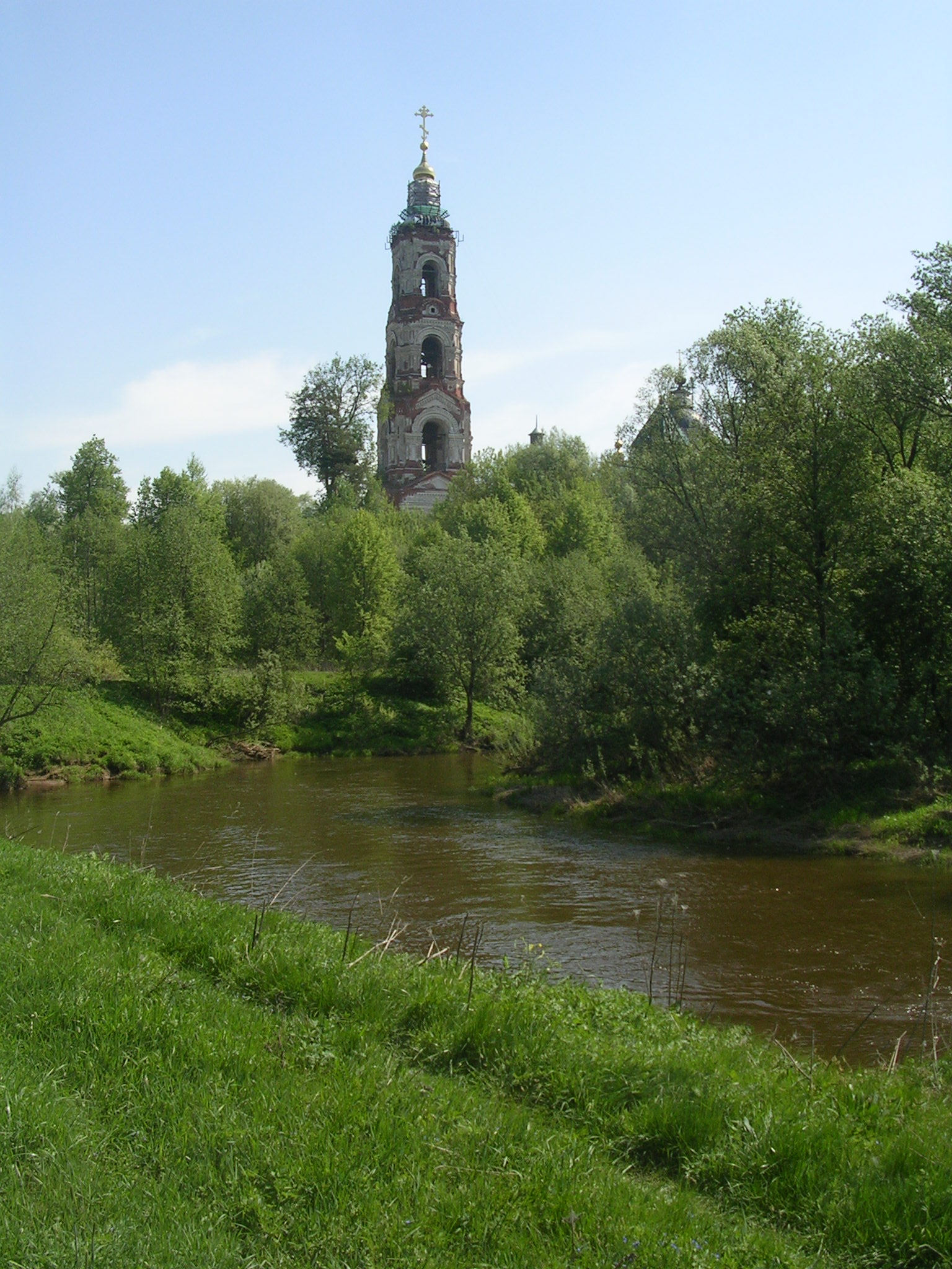 Bell tower of Nikolo-Berlukovsky monastery in Avdotino Moscow region, view from Vorya river